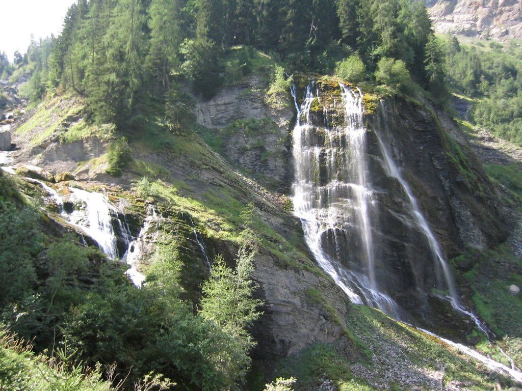 Sauffaz and Pleureuse waterfalls